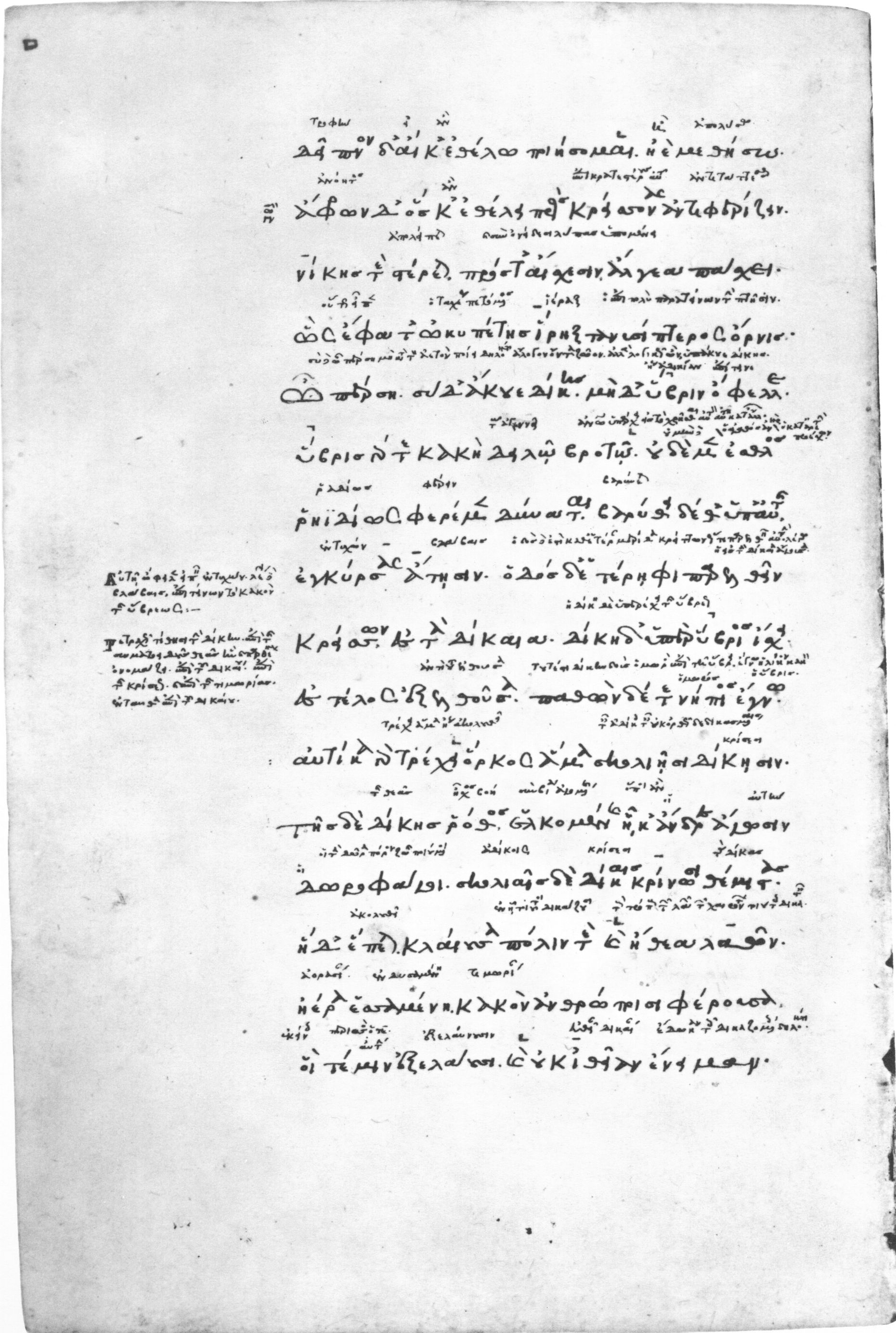 Hesiod, Works and Days, with scholia by Manuel Moschopoulos, in ms. Venice, Biblioteca Marciana, Gr. 464, fol. 26v.